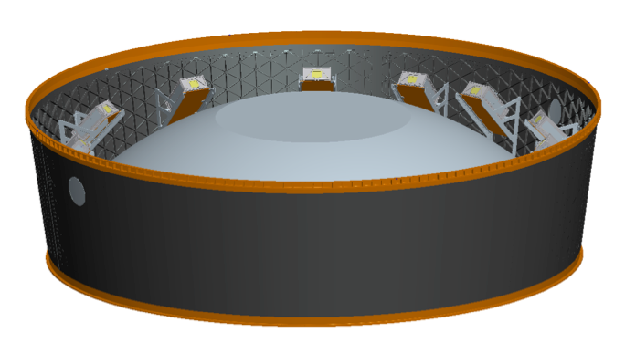 NASA's Space Launch System will use the MPCV Stage Adapter to carry 11 CubeSats as secondary payload to be deployed in 2018 on deep space between the Earth and the Moon.